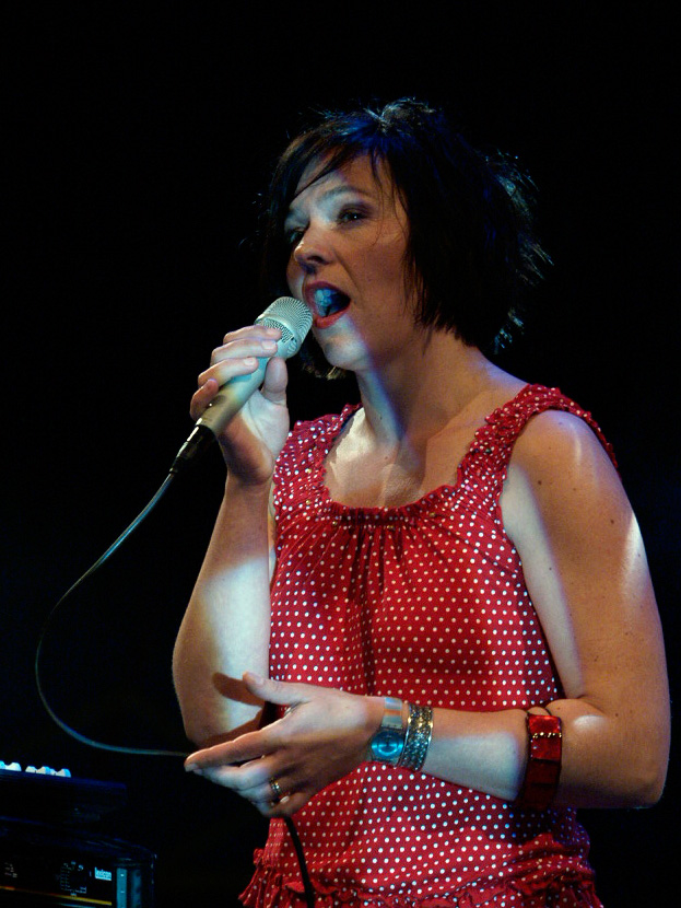 Eldbjørg Raknes at moers festival 2007 self made/own work, may 26, 2007 photo: nomo/michael hoefner